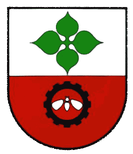 old coat of arms of Milanówek. was replaced by Image:POL Milanówek COA.svg on June 10, 1997